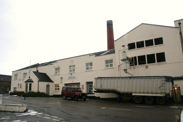 Benrinnes Distillery Under nearby Ben Rinnes work goes on at Benrinnes Distillery.